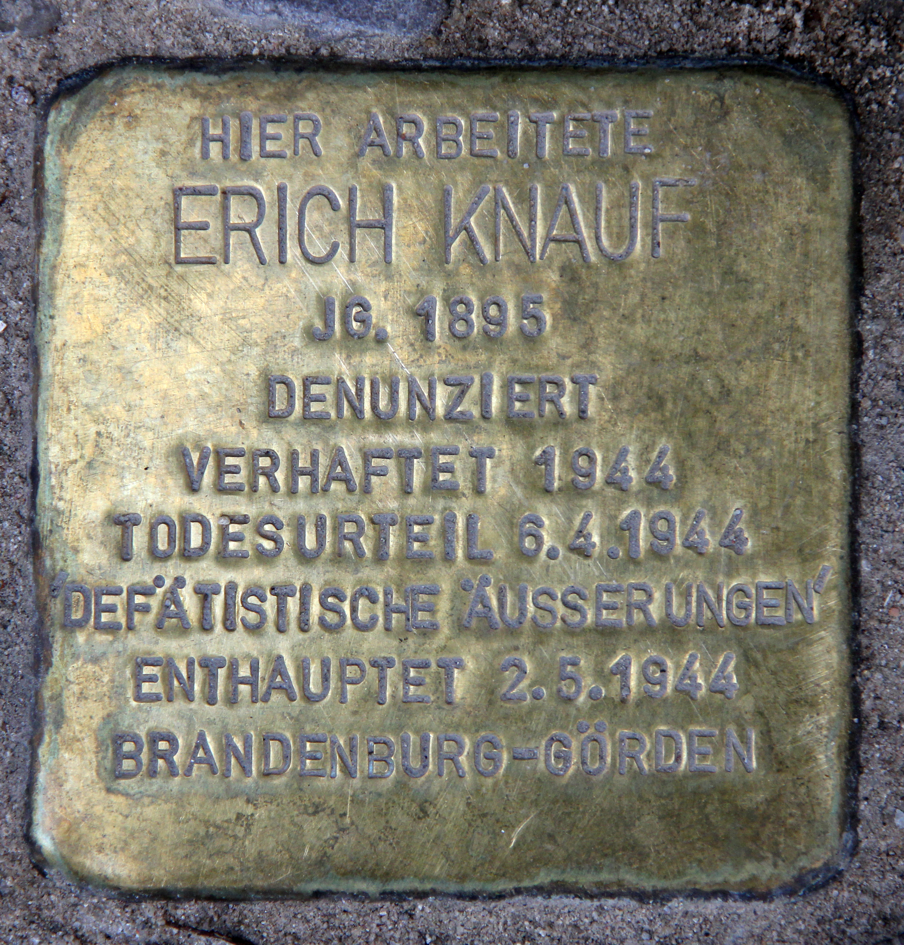 "Stolperstein" (stumbling block), Erich Knauf, Dudenstraße 10, Berlin-Kreuzberg, Germany